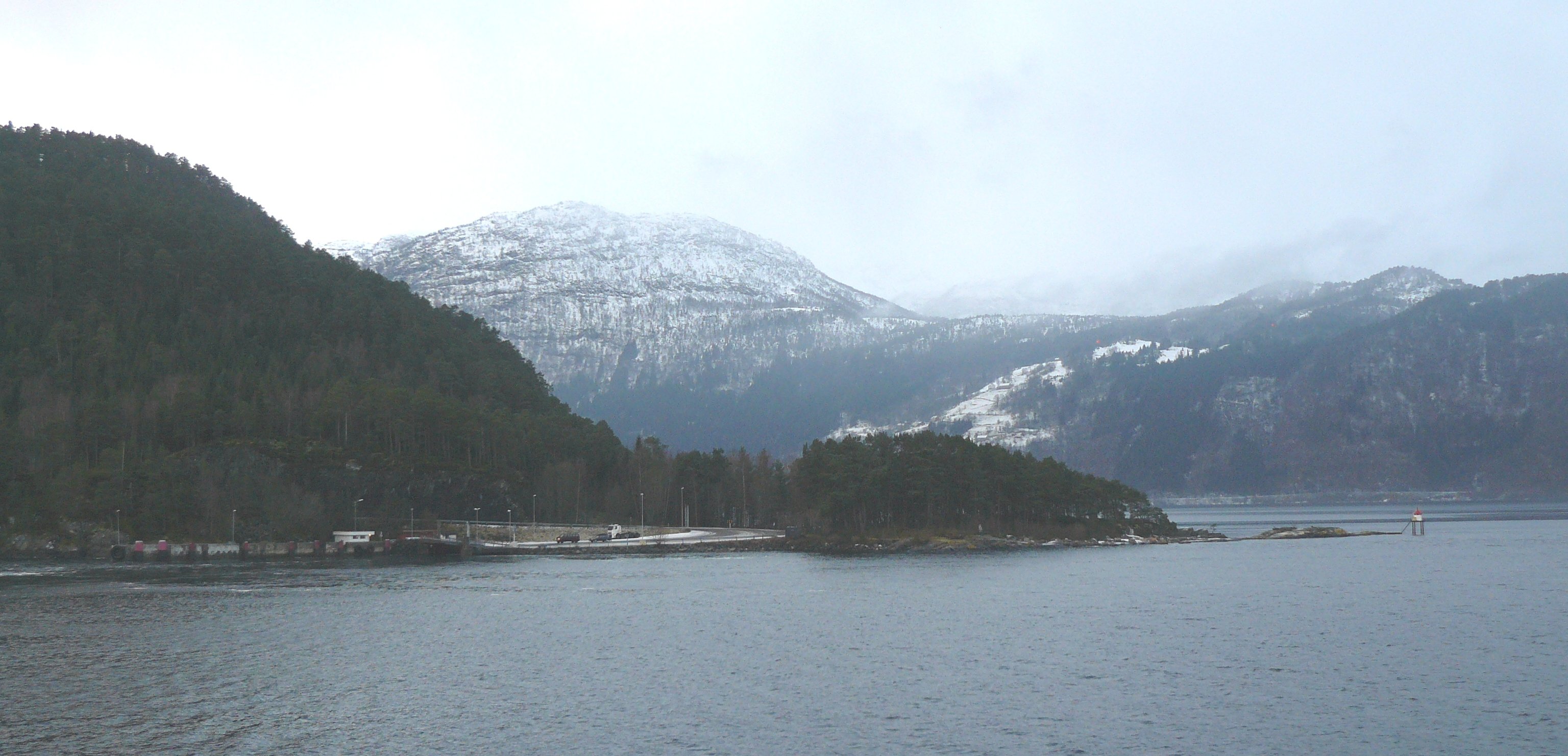 Anda ferry slip, Gloppen, Norway. To the right is Anda lighthouse